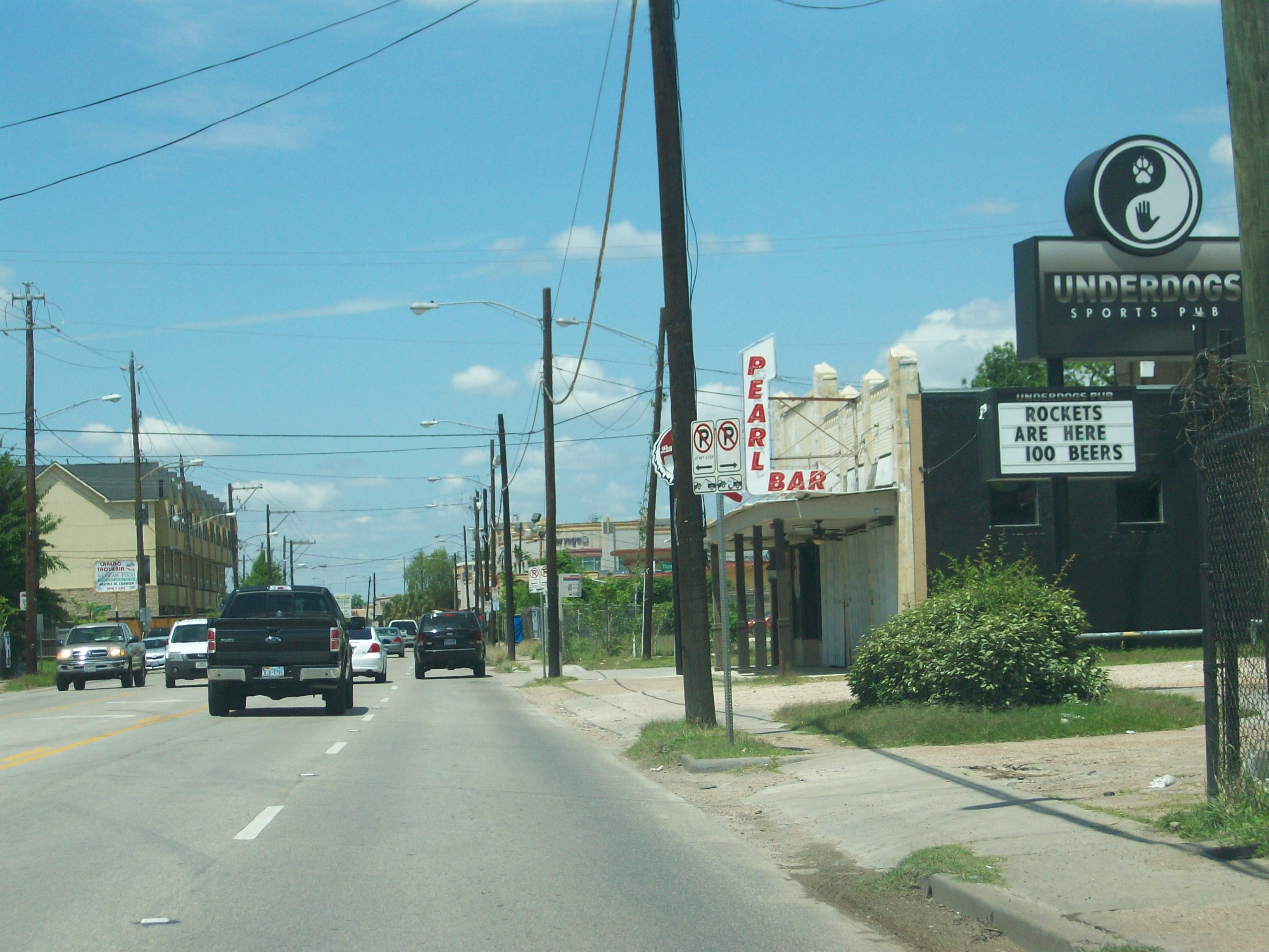 Washington Avenue (Houston, Texas)